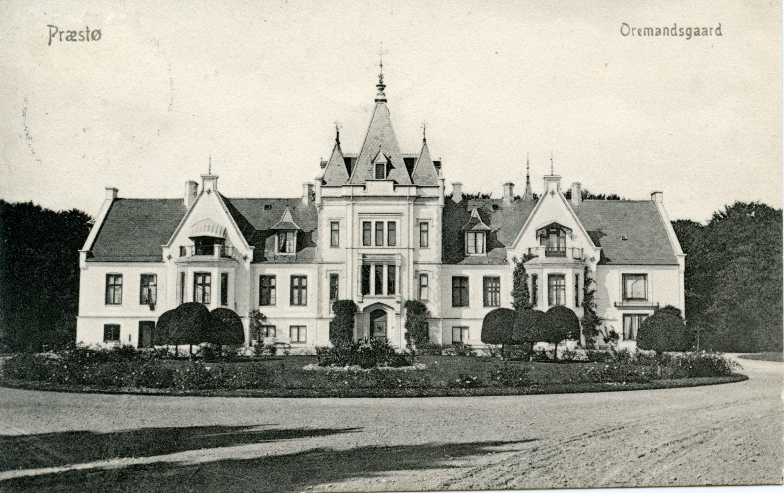 The new main building of Oremandsgaard from 186+ in Vordingborg Municipality, Denmark. It was destroyed by fire in 1933.